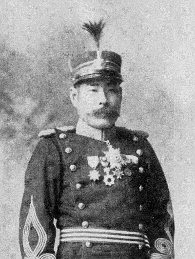 Hidesue Ogura